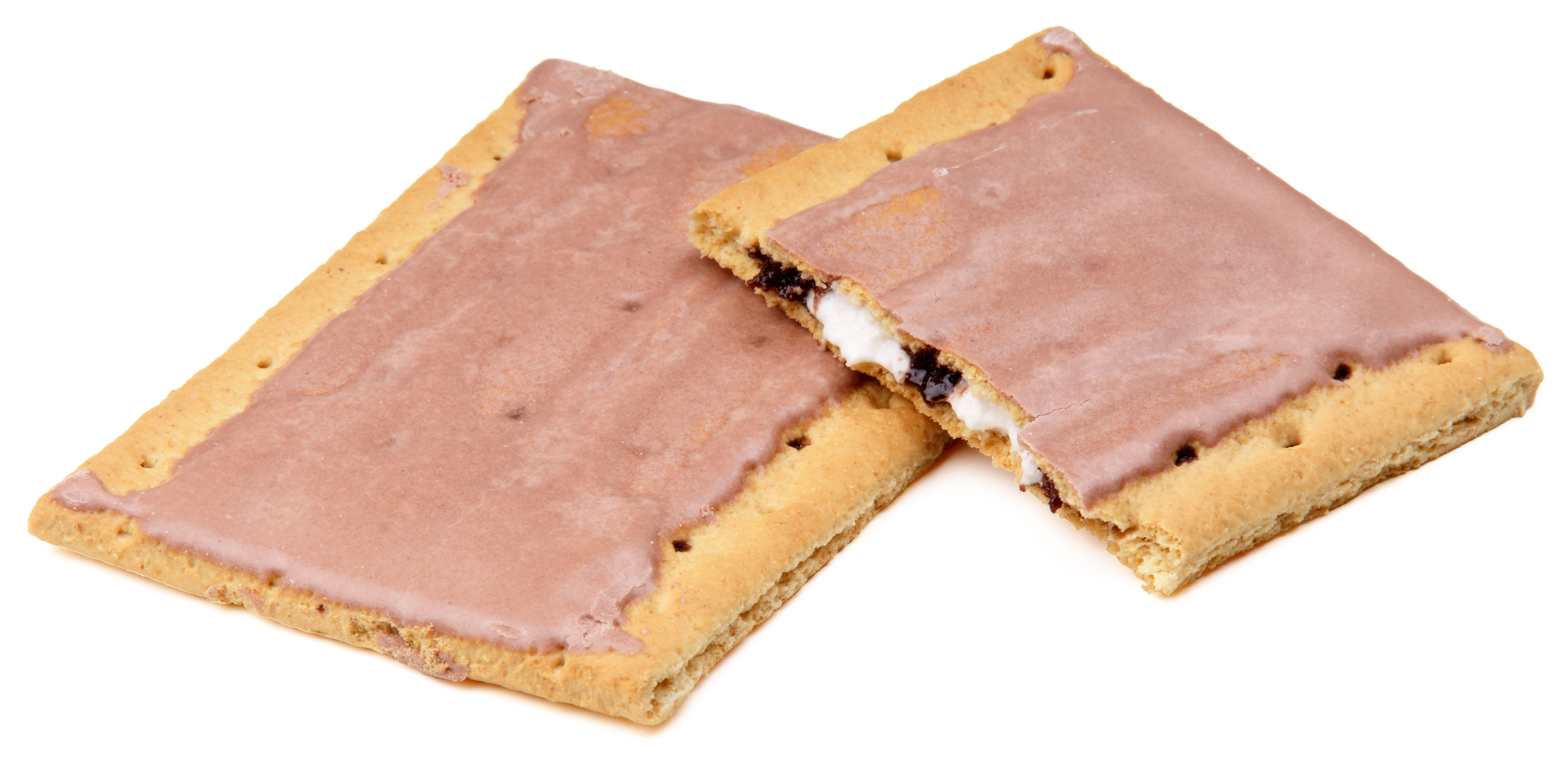 S'mores Pop-Tarts.